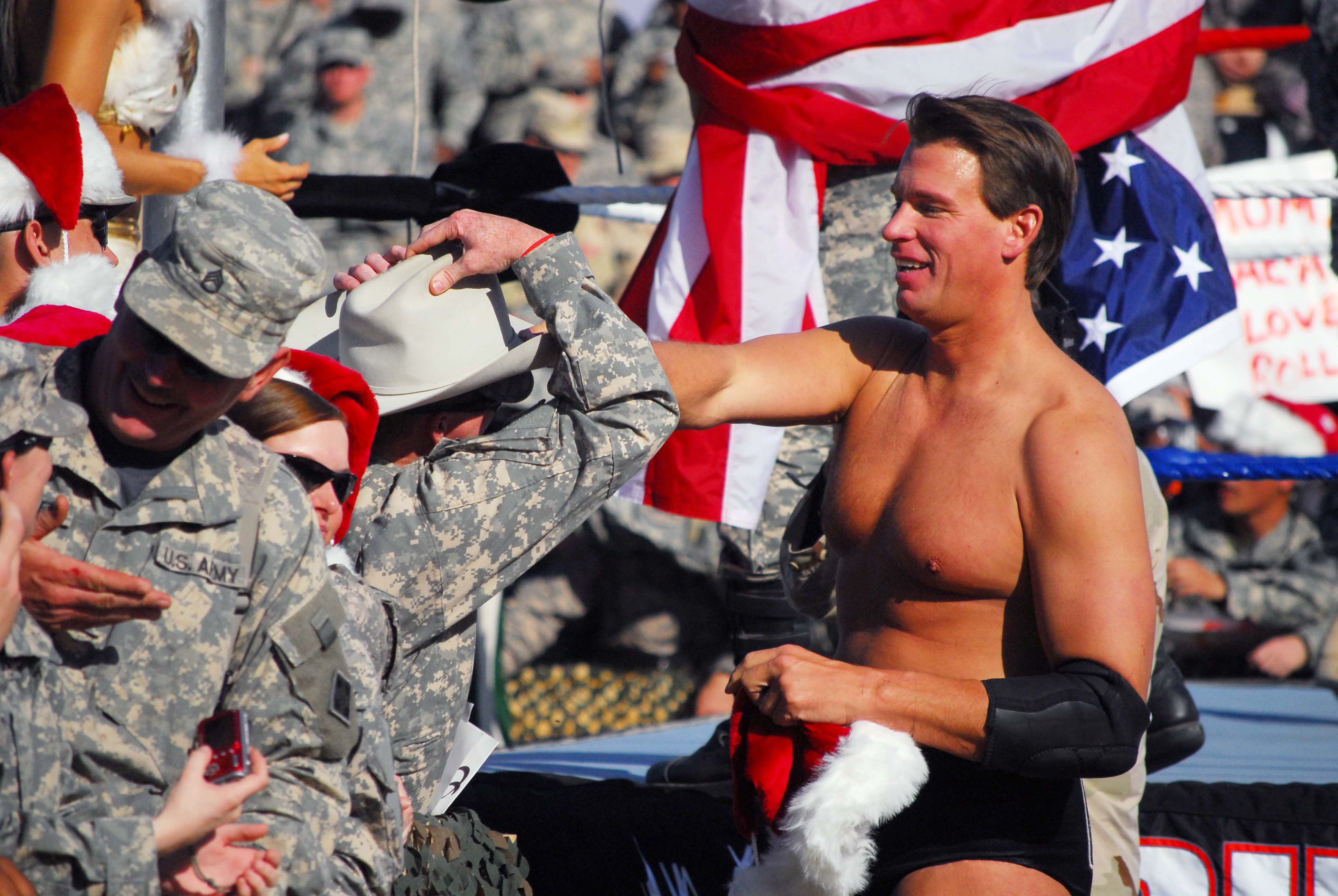 World Wrestling Entertainment Superstar JBL gives his signature cowboy hat to a service member in Iraq during the WWE's Tribute to the Troops main event on Camp Victory, Dec. 5.